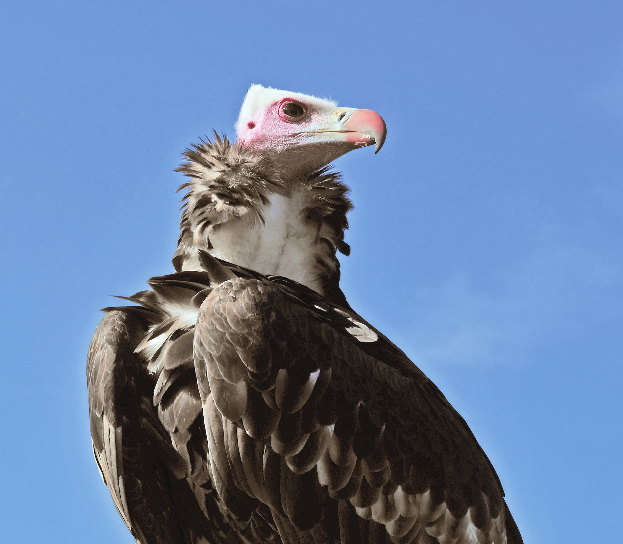 White-headed Vulture in the Adlerwarte Berlebeck in Berlebeck, Detmold, Germany